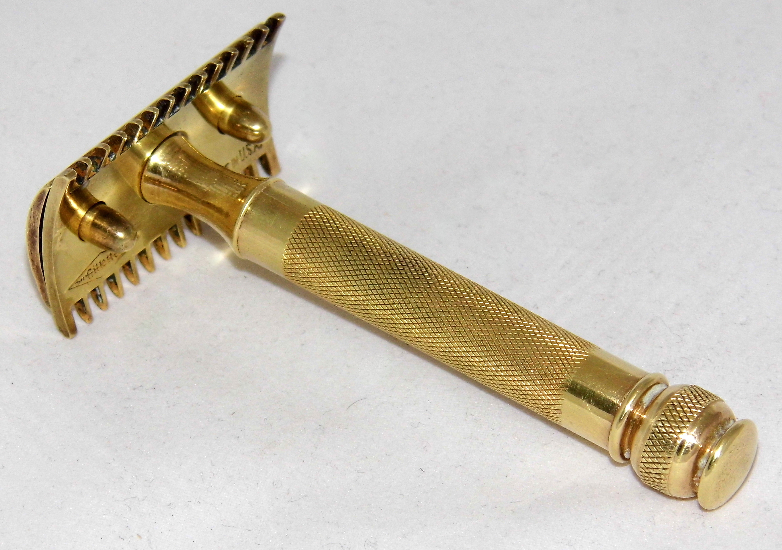 Vintage Gillette safety razor, old type set, made in USA, circa 1920s